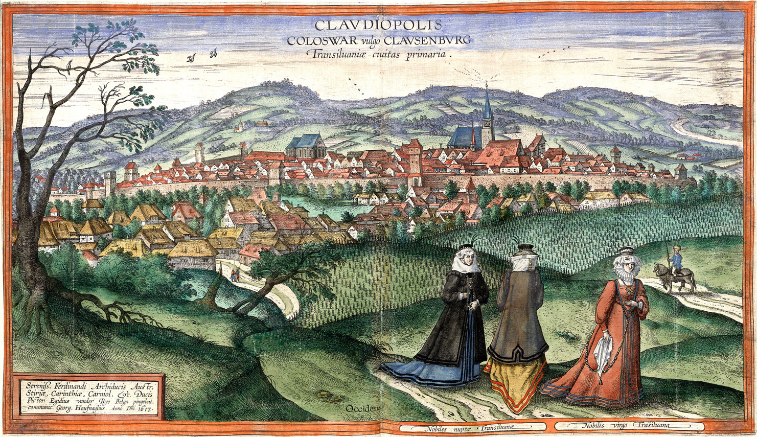 17th century view of Cluj-Napoca